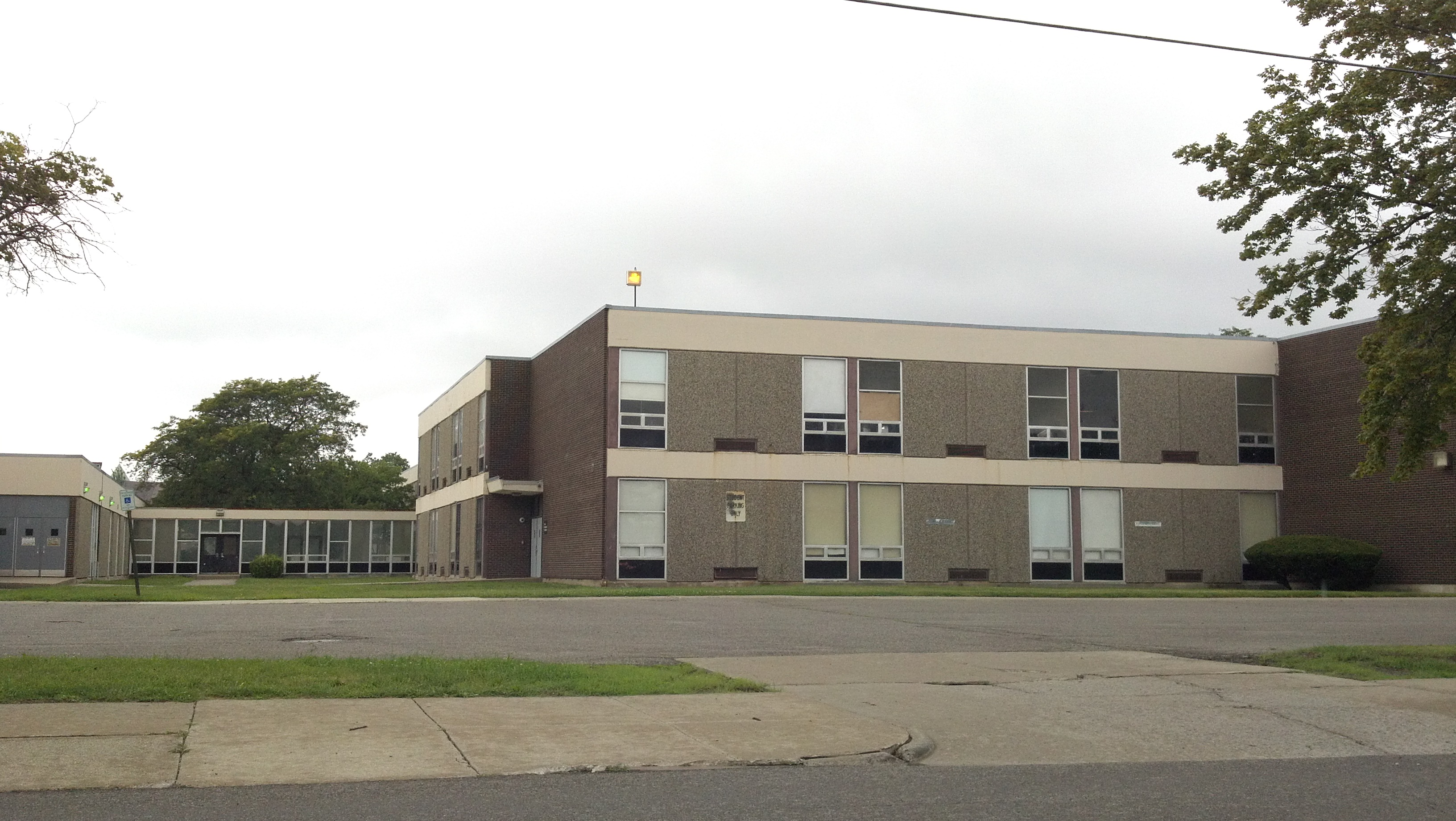 Depicted place: Douglass Academy for Young Men